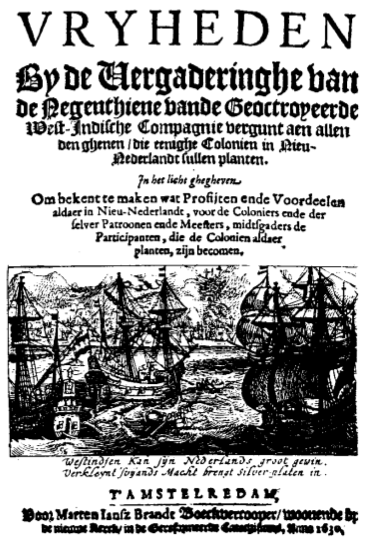 First page of the Charter of Freedoms and Exemptions, written by the Dutch West India Company, which offered the right to investors to start feudal patroonships in an effort to settle the West India Company's colony, New Netherland in North America